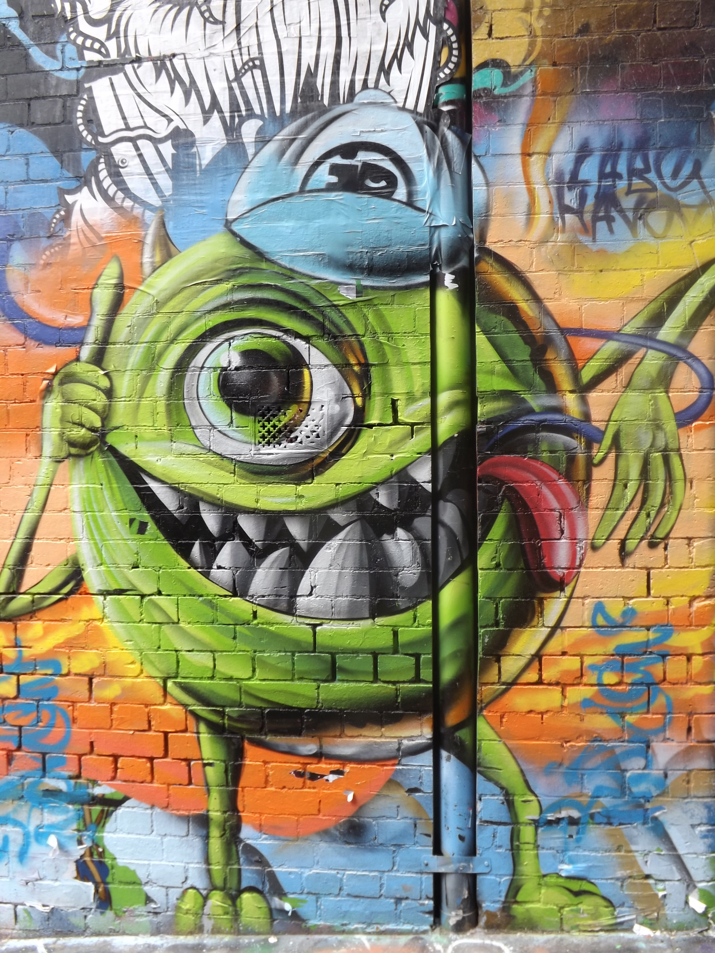 Street art in Hosier Lane, Melbourne.